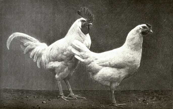 Photograph of Ramelsloher cock and hen, from: "Huperz' Geflügelzucht. Anleitung zur haltung und pflege des hausgeflügels unter besonderer berüchsichtigung der ländlichen verhältnisse "